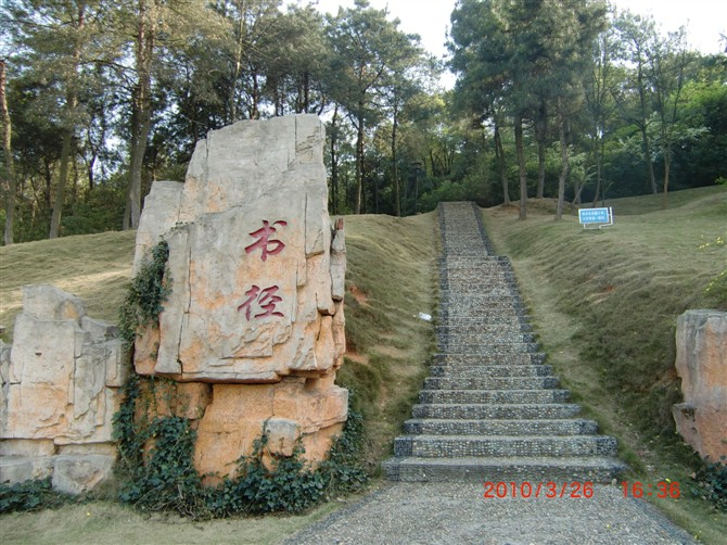 Hunan Mass Media Vocational Technical college,this photo shows The ShuJing Road.